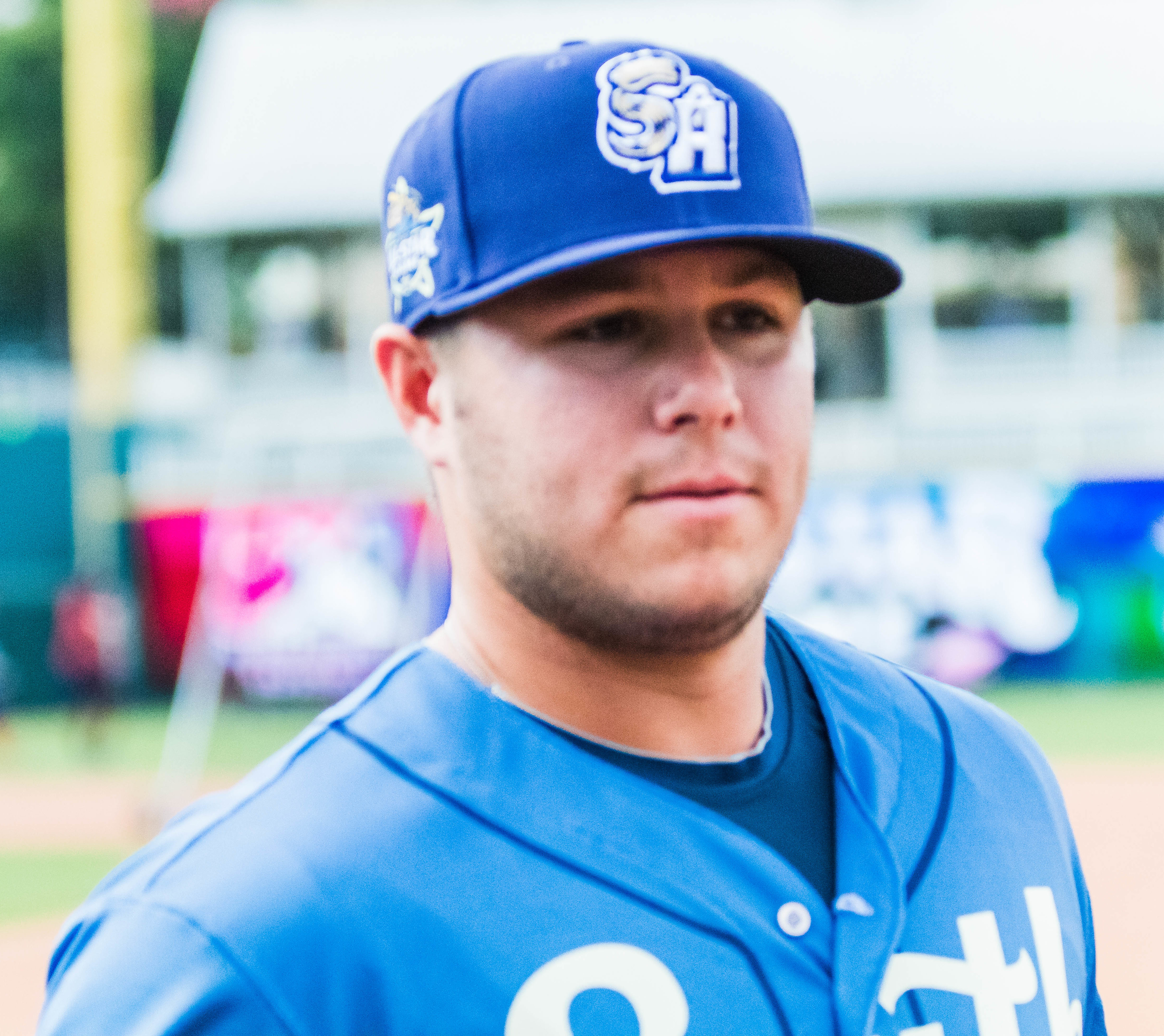 Ty France at the Texas League All Star Game in 2017